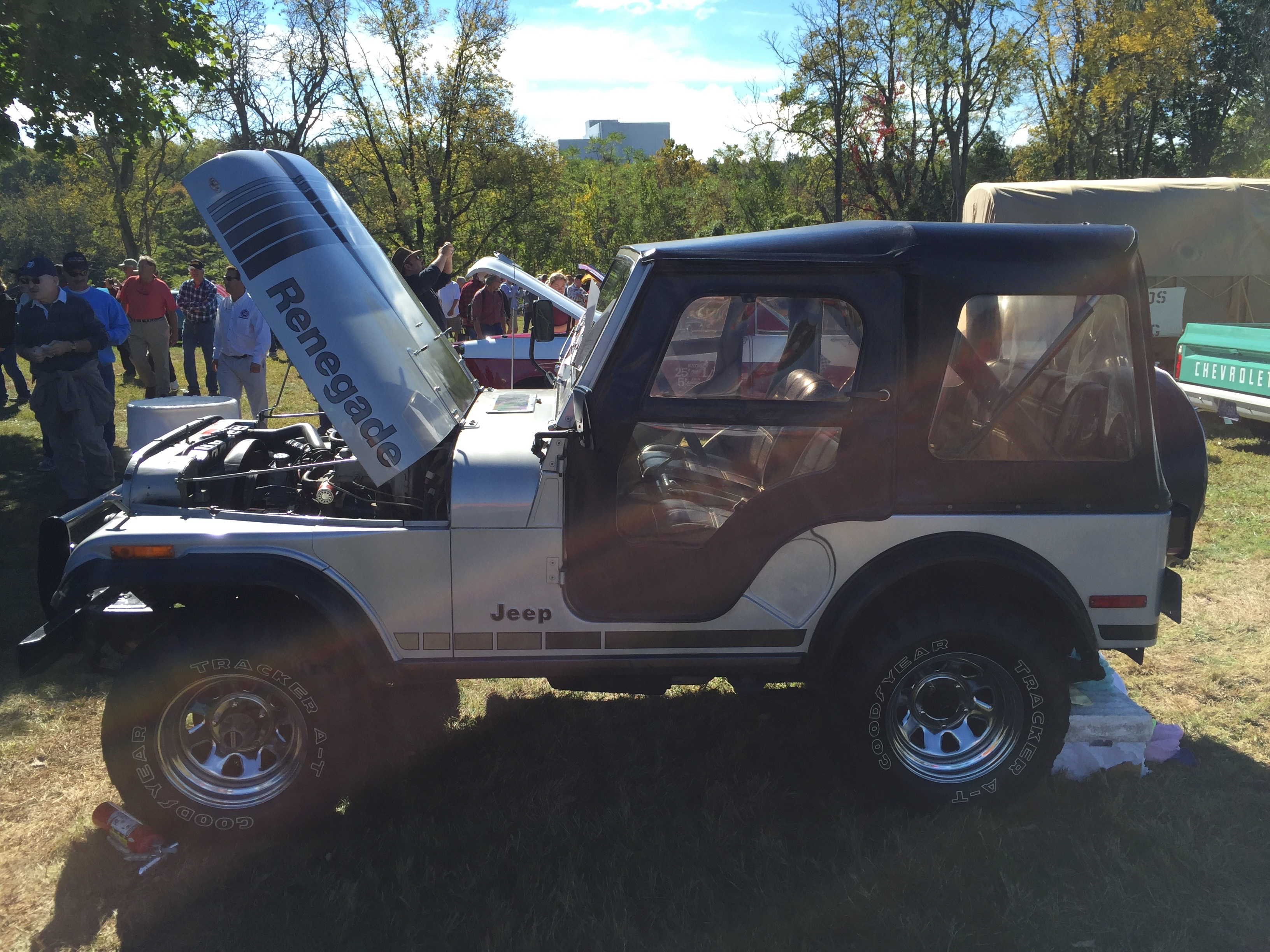 1979 Jeep CJ Silver Anniversary edition. This is a limited edition version of the Renegade model to celebrate 25 years of the CJ-5. Features include Quick Silver metallic paint, black to silver accent striping and Renegade decals, black soft top, black vinyl bucket seats, silver accents, as well as a dashboard plaque commemorating the 1954-1979 occasion. The spare tire cover was also special to the anniversary edition. Note that the paint was a special shade exclusive to this model, as was the striping. This original, unmodified Jeep has AMC's 304 cubic inch (5 L) V8 engine with manual transmission, as well as the standard chrome wheels that came with the Anniversary package. This Jeep also has power steering and power disk brakes. The book "Jeep Collector's Library" by Jim Allen on page 97 describes this model as "very low production". Picture taken on the show field of the Antique Automobile Club of America (AACA) 2015 Hershey meet that is held every October in Pennsylvania.